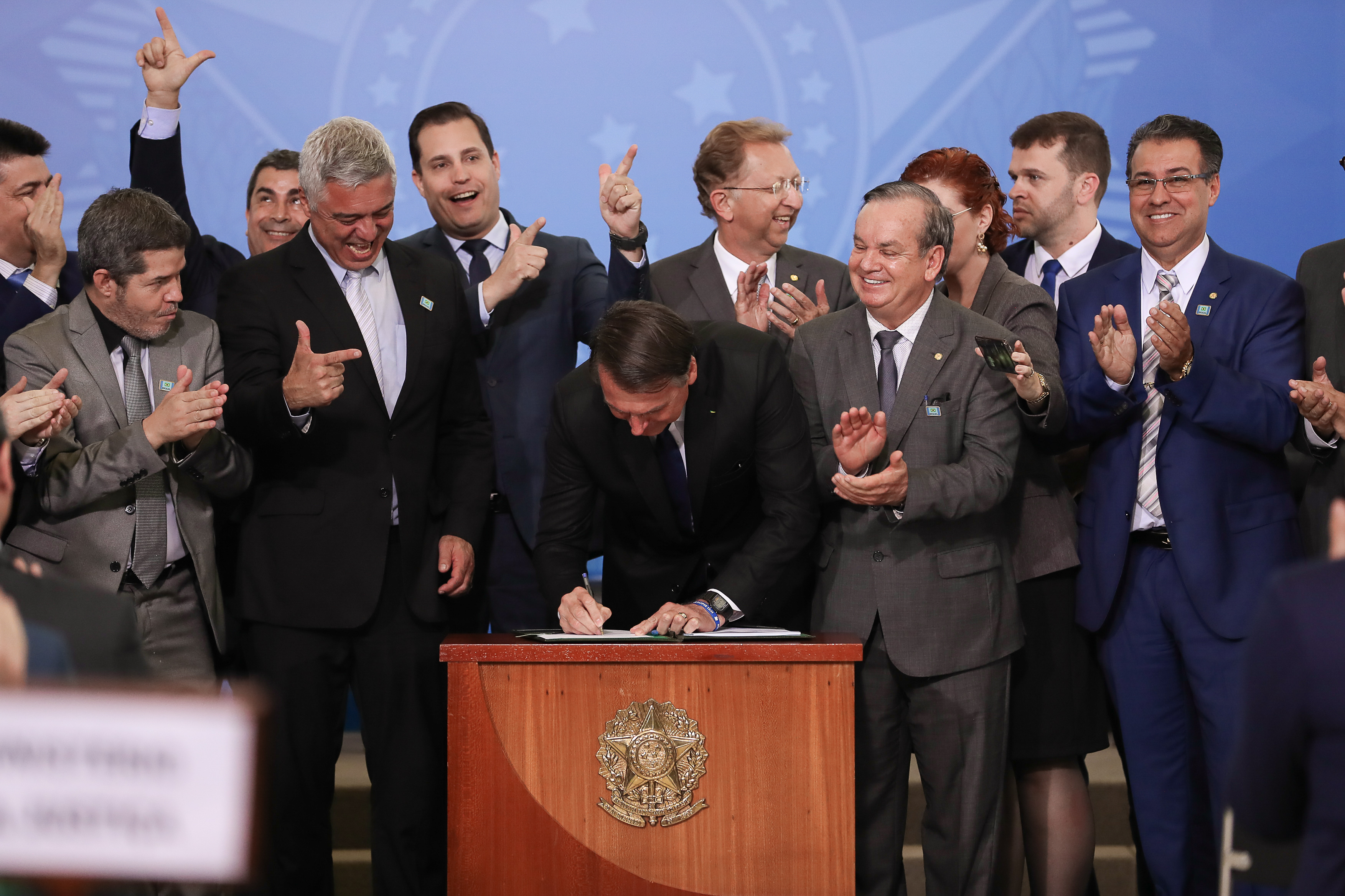 Jair Bolsonaro assinando o Decreto Presidencial nº 9.785/2019.